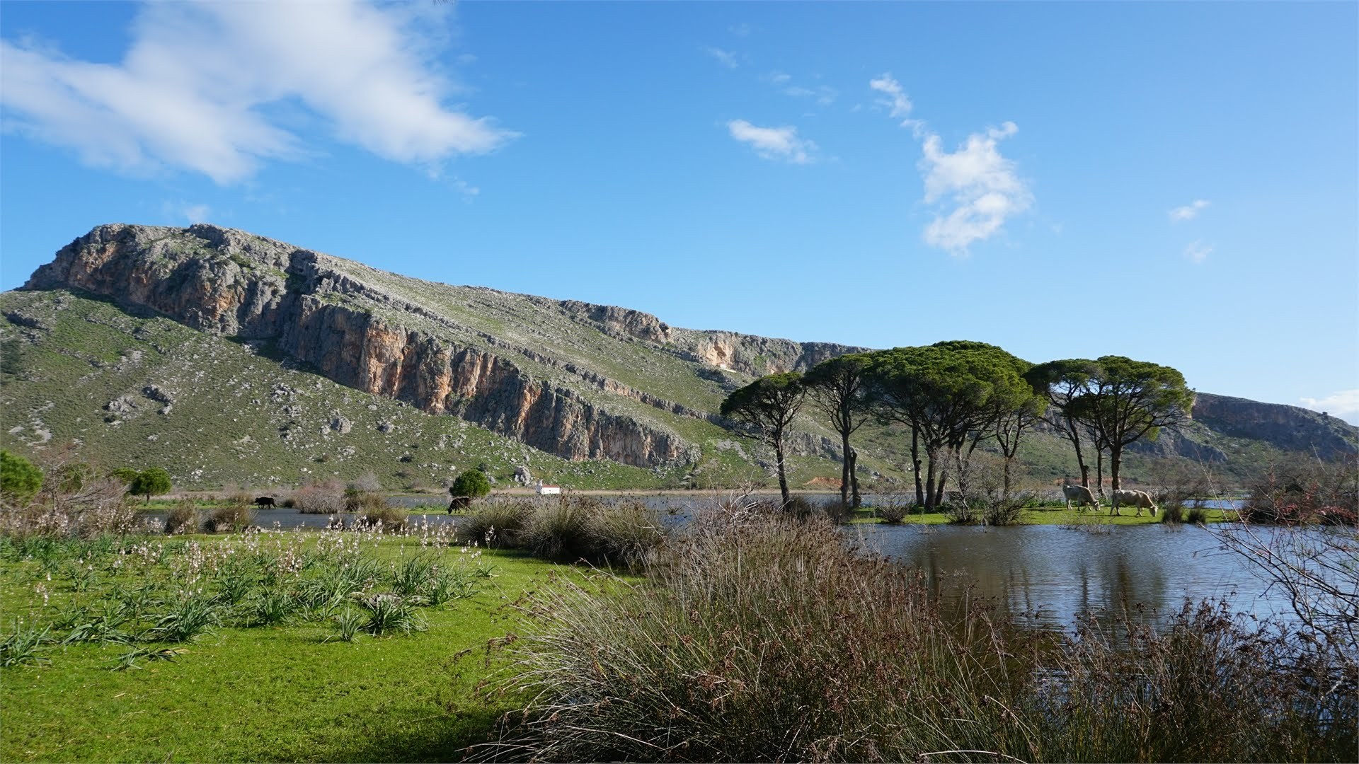 SONY DSC This is a photography of Natura 2000 protected area with ID GR2320001